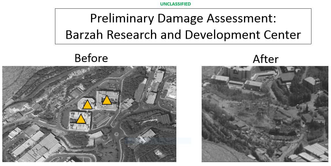 News Briefing Slide of 2018 bombing of Damascus and Homs released by the US Department of Defense. Preliminary Dammage Assessment: Barzah Research and Development Center (unclassified)